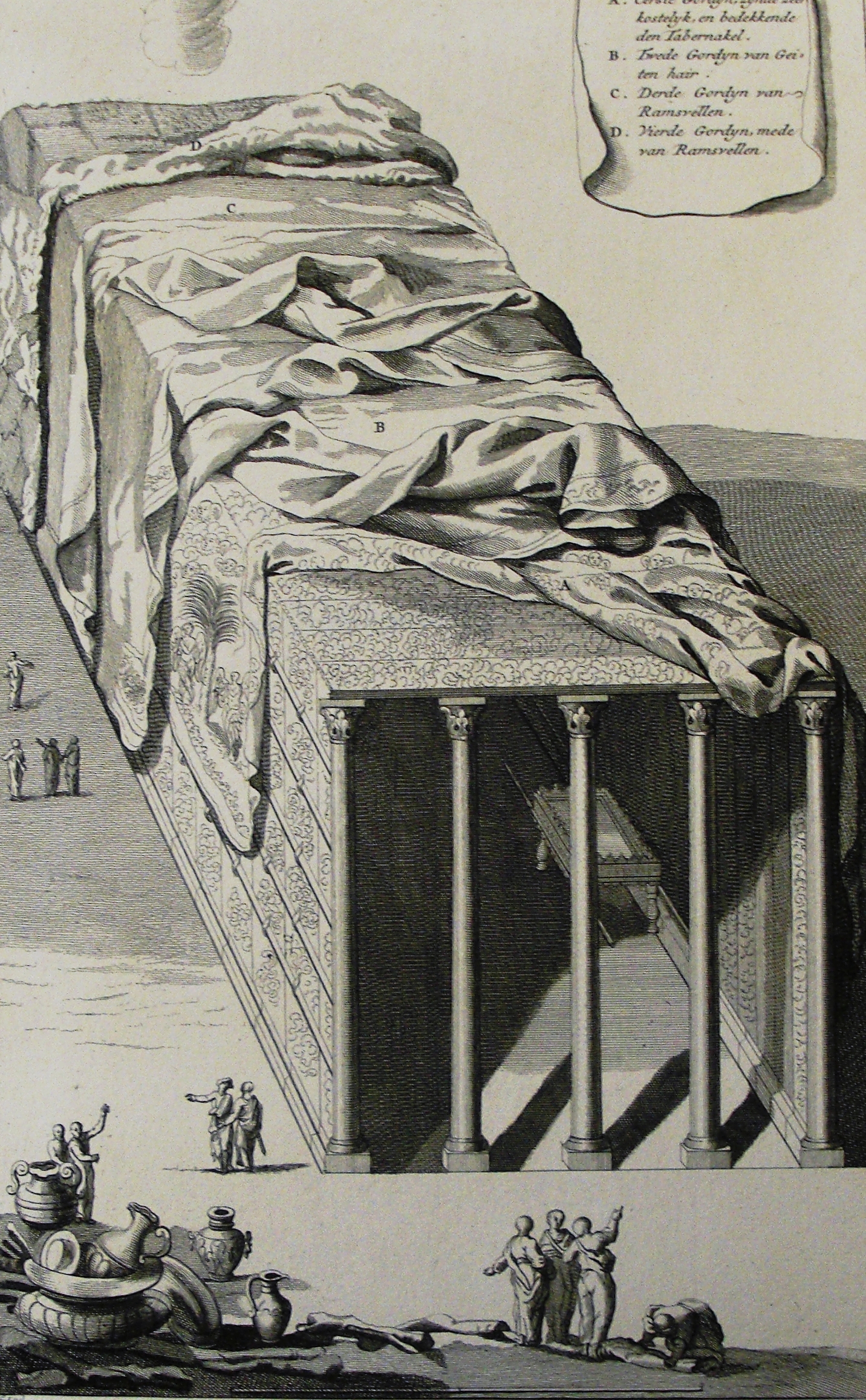 A print from the Phillip Medhurst Collection of Bible illustrations in the possession of Revd. Philip De Vere at St. George’s Court, Kidderminster, England.